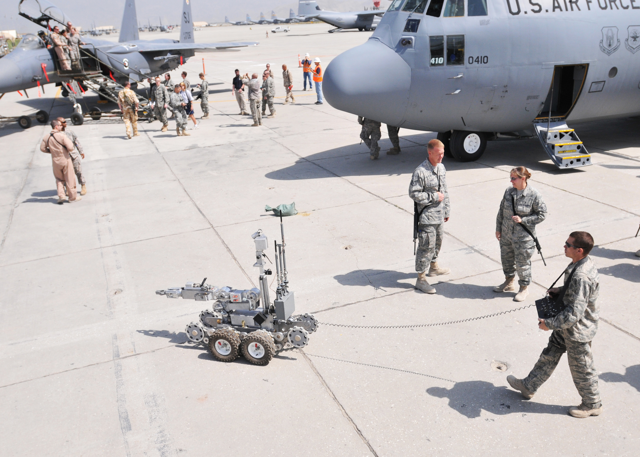 Staff Sgt. Ryan Oliver, an Explosive Ordnance Disposal team leader from the 755th Air Expeditionary Group demonstrates the capabilities of their robot for a crowd at an Open House ceremony in honor of the Air Force's 62nd birthday at Bagram Airfield, Sept. 18. The Air Force birthday events started at 6 a.m. with a military formation of hundreds of Airmen, Soldiers, Sailors and Marines, reveille, a five kilometer run and was later followed by a ceremony and open house with many Air Force aircraft on display. The open-house event was held for Soldiers, Marines and Sailors to get more acquainted with their Air Force counterparts who are often providing support from the sky, or from remote bases scattered across Afghanistan. (Photo ID: 204830)